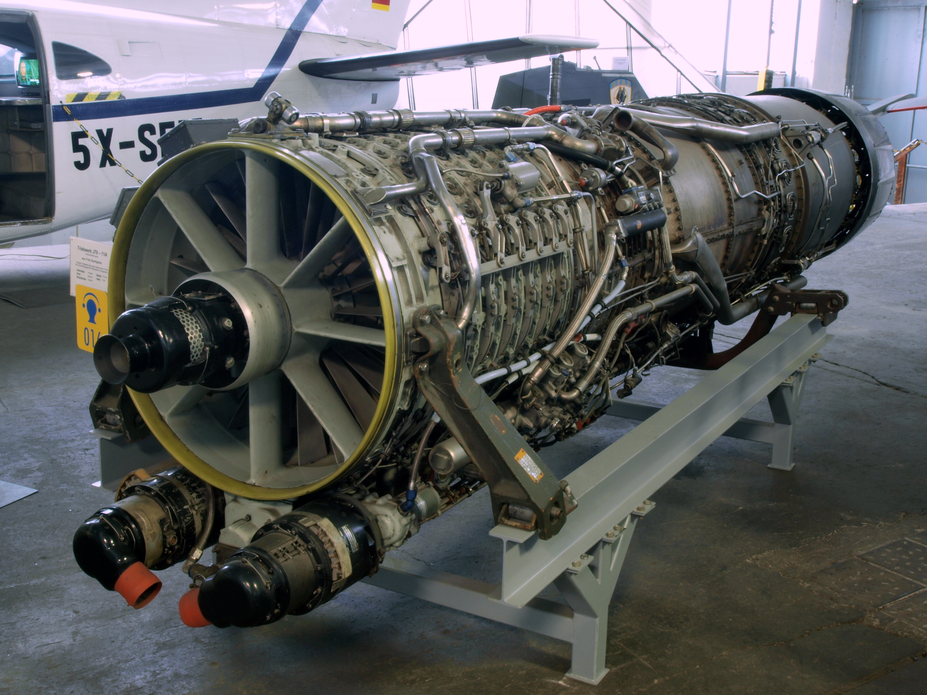 J79-11A of a F104 Starfighter